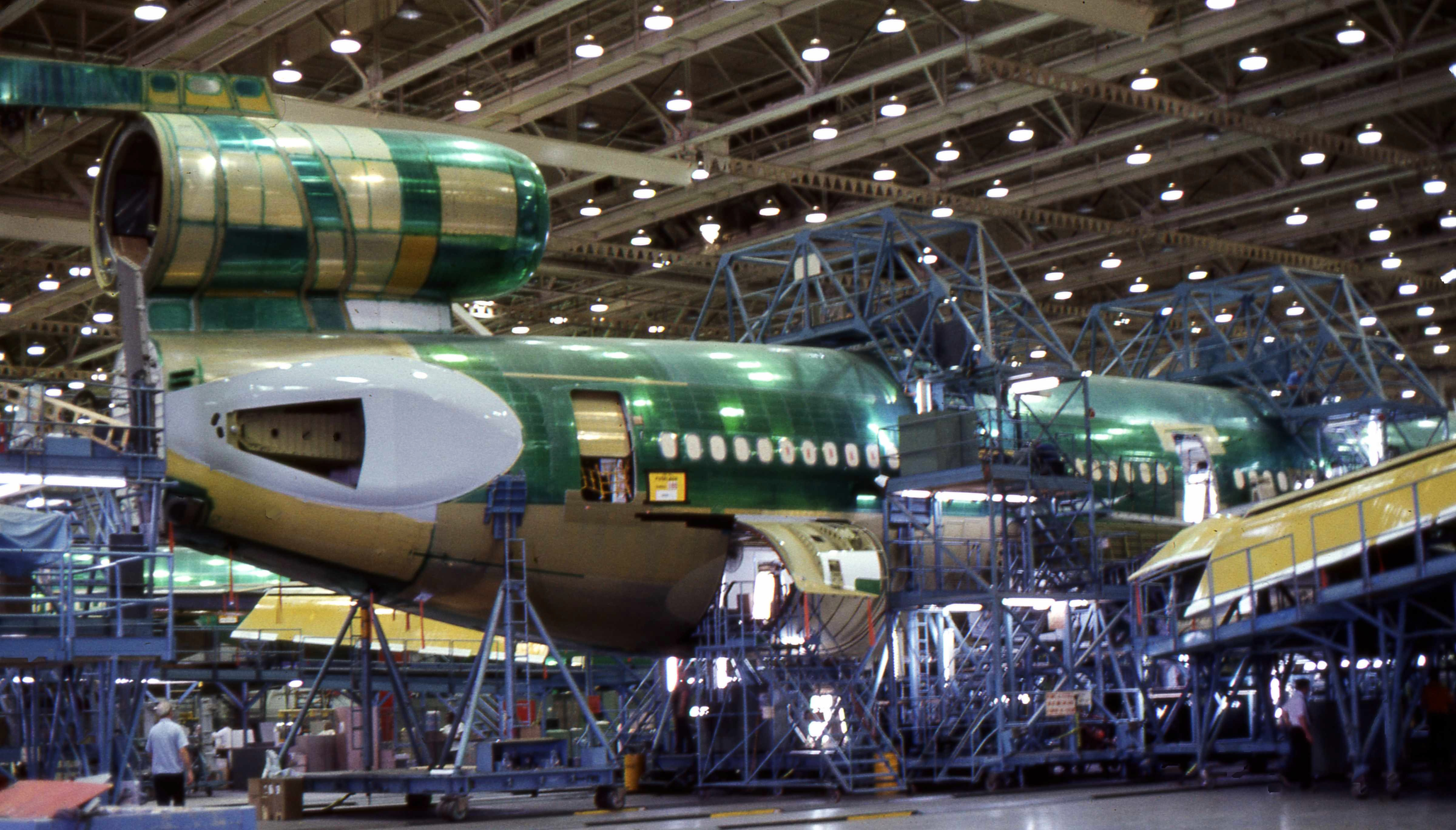 United States of America, California, Long Beach Airport, McDonnell Douglas. The plant where has been assembled the DC-9 and the DC-10.